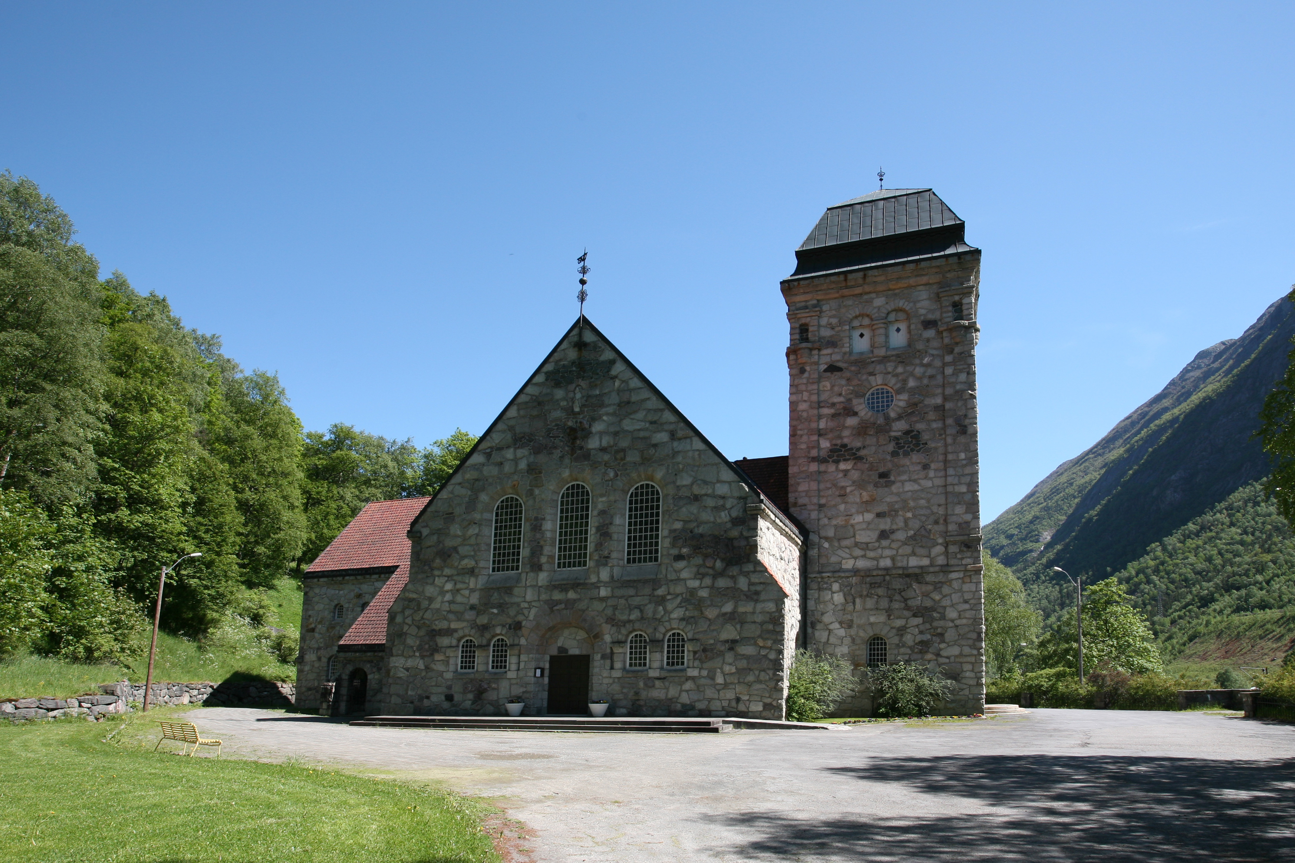 Picture of Rjukan kirke (Telemark - Norway)